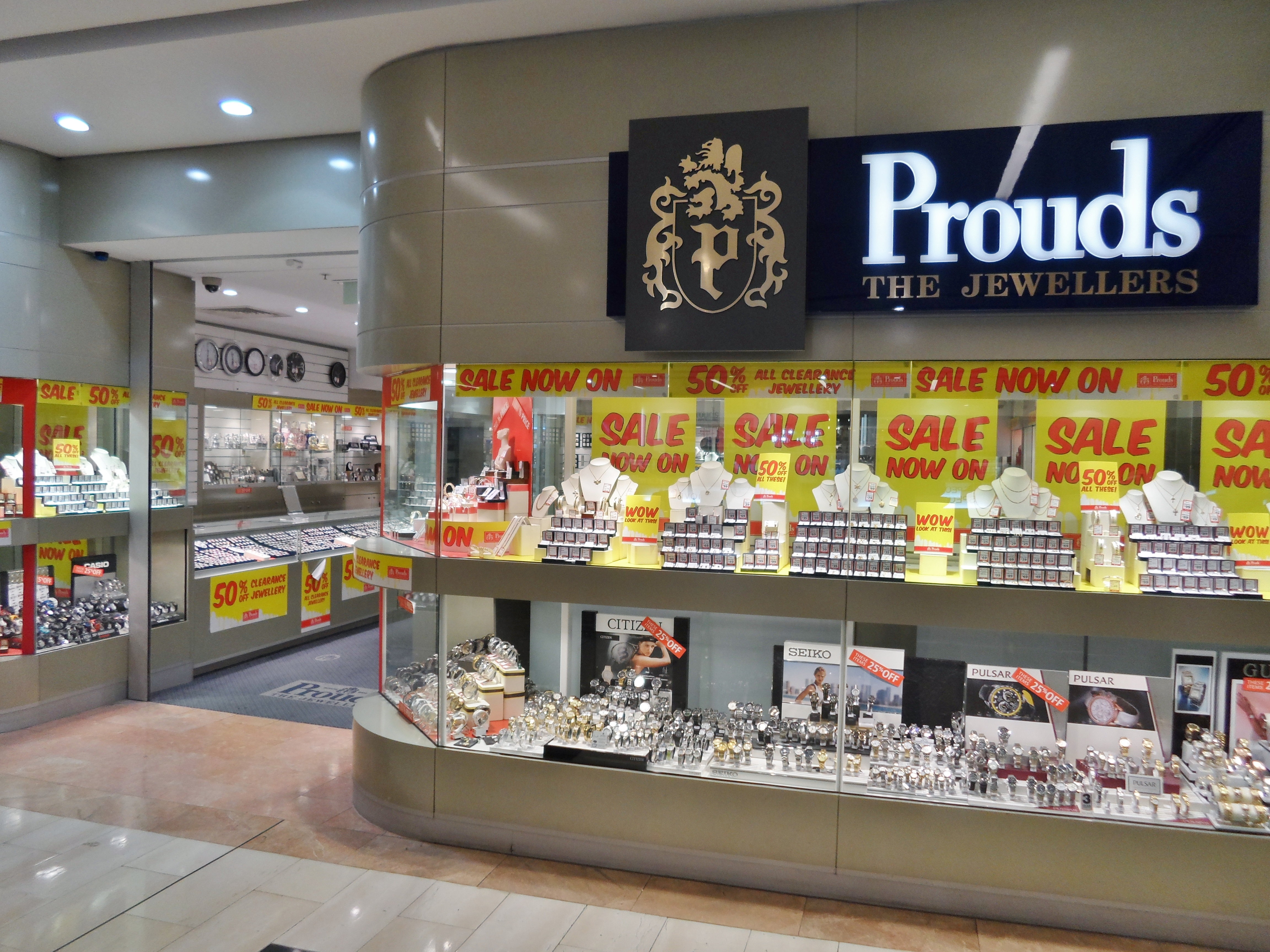 Australian jeweller Prouds's store at Westfield Sydney shopping centre in 2013.